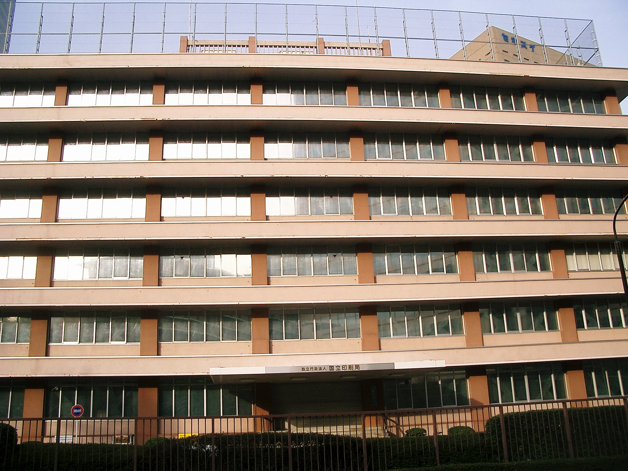 the National Printing Bureau 国立印刷局